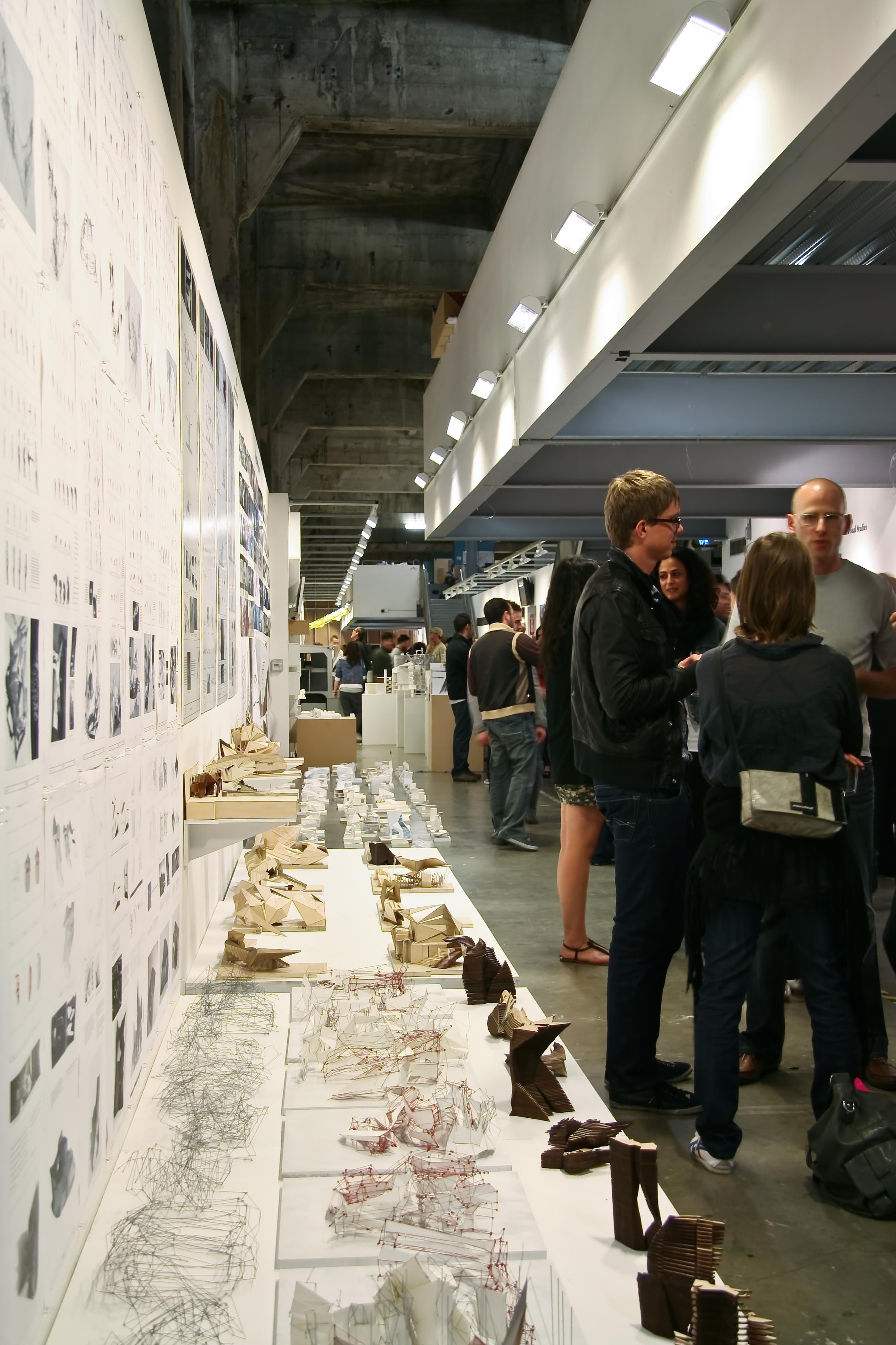 finals presentations at sciarc